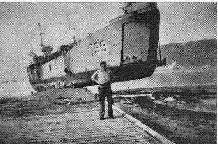 USS Greer County (LST-799) on the pier at Inchon, South Korea in 1950, the result of miscalculating the extreme ebb and flow of the tides in that port. US Navy photo from All Hands magazine, September 1951.